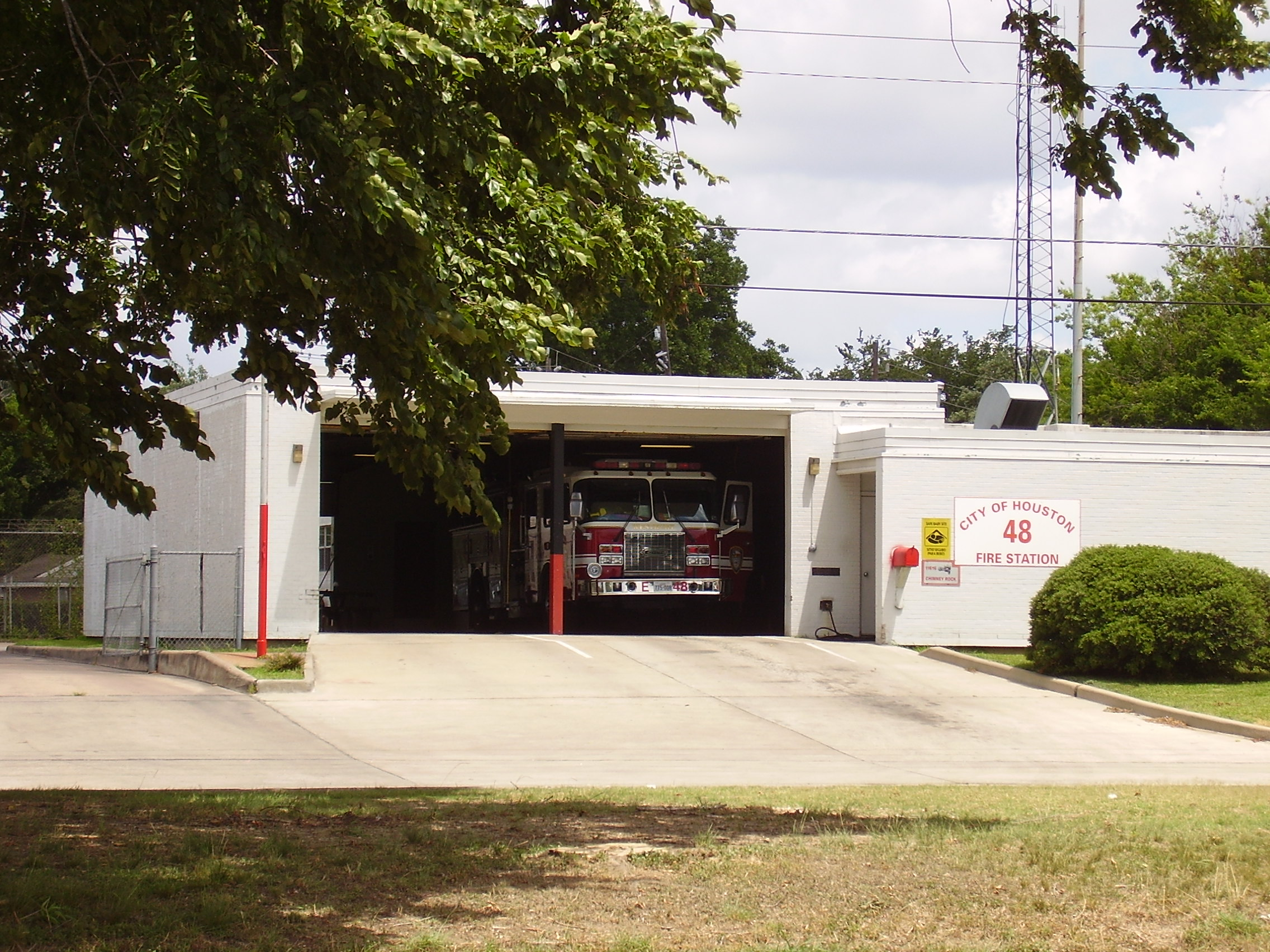 Fire Station #48 Westbury, in the Westbury area of Houston